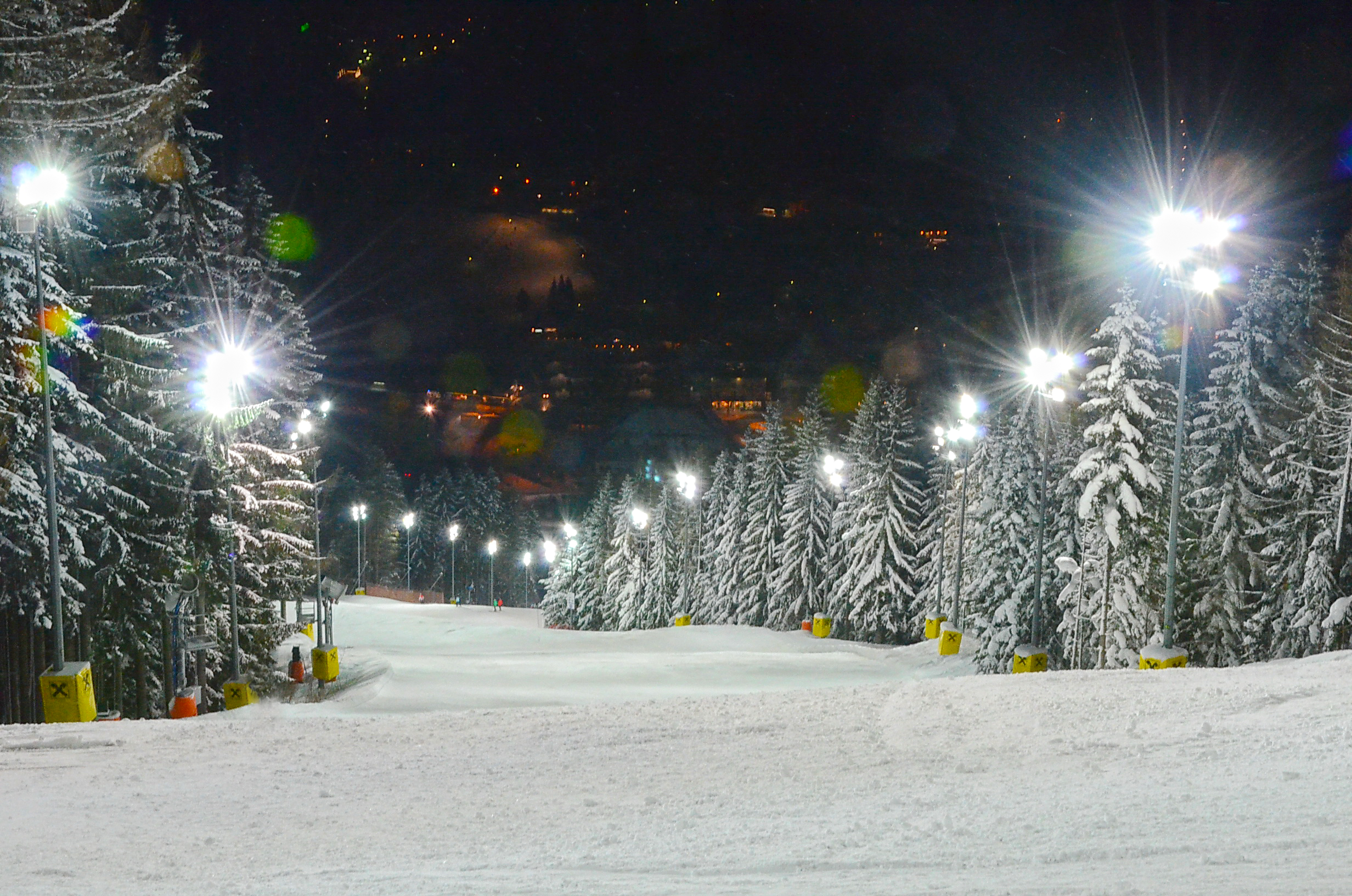 Night view at slopes of Semmering ski resort (Austria)